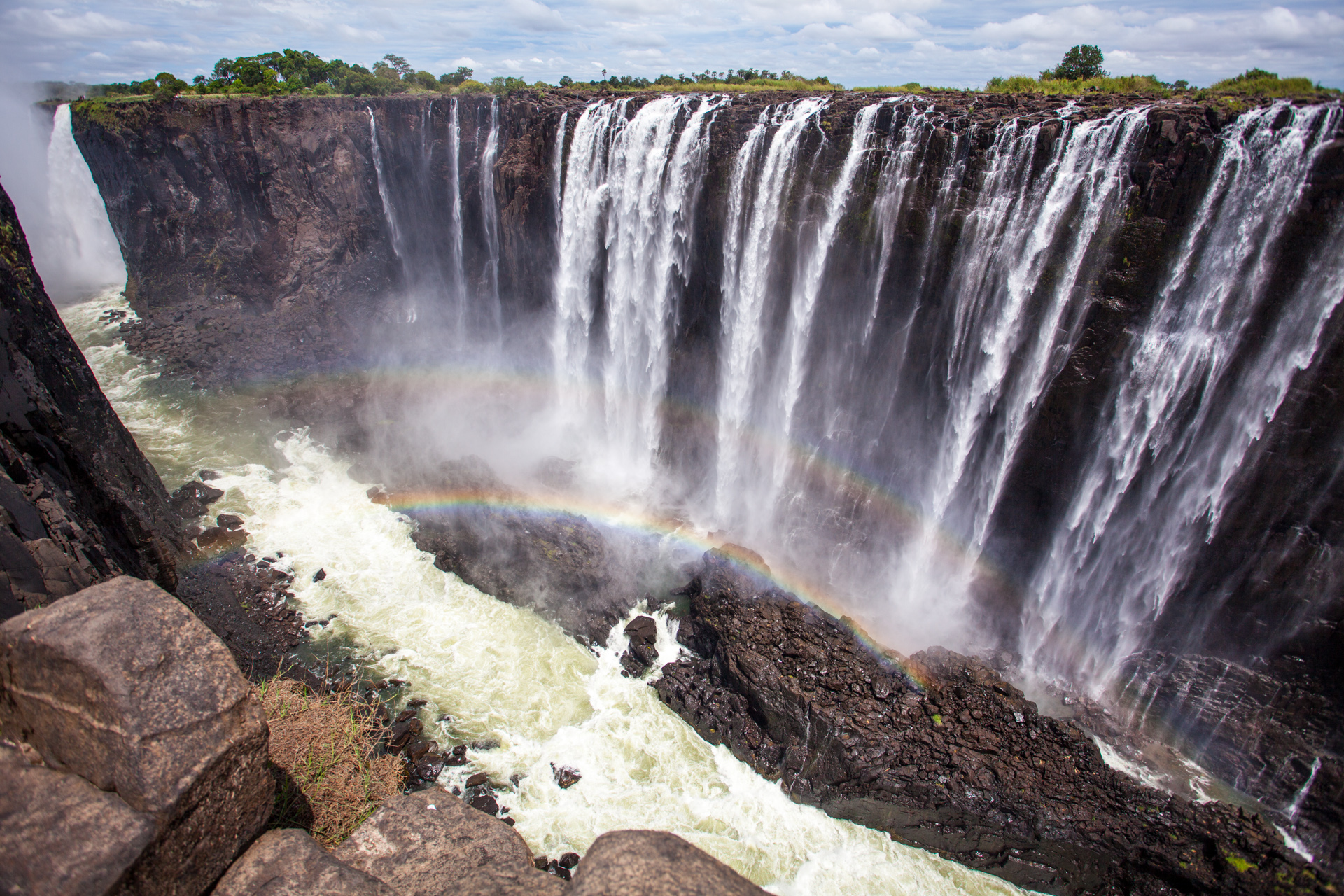 Victoria Falls, Zimbabwe Photograph by Anne Dirkse